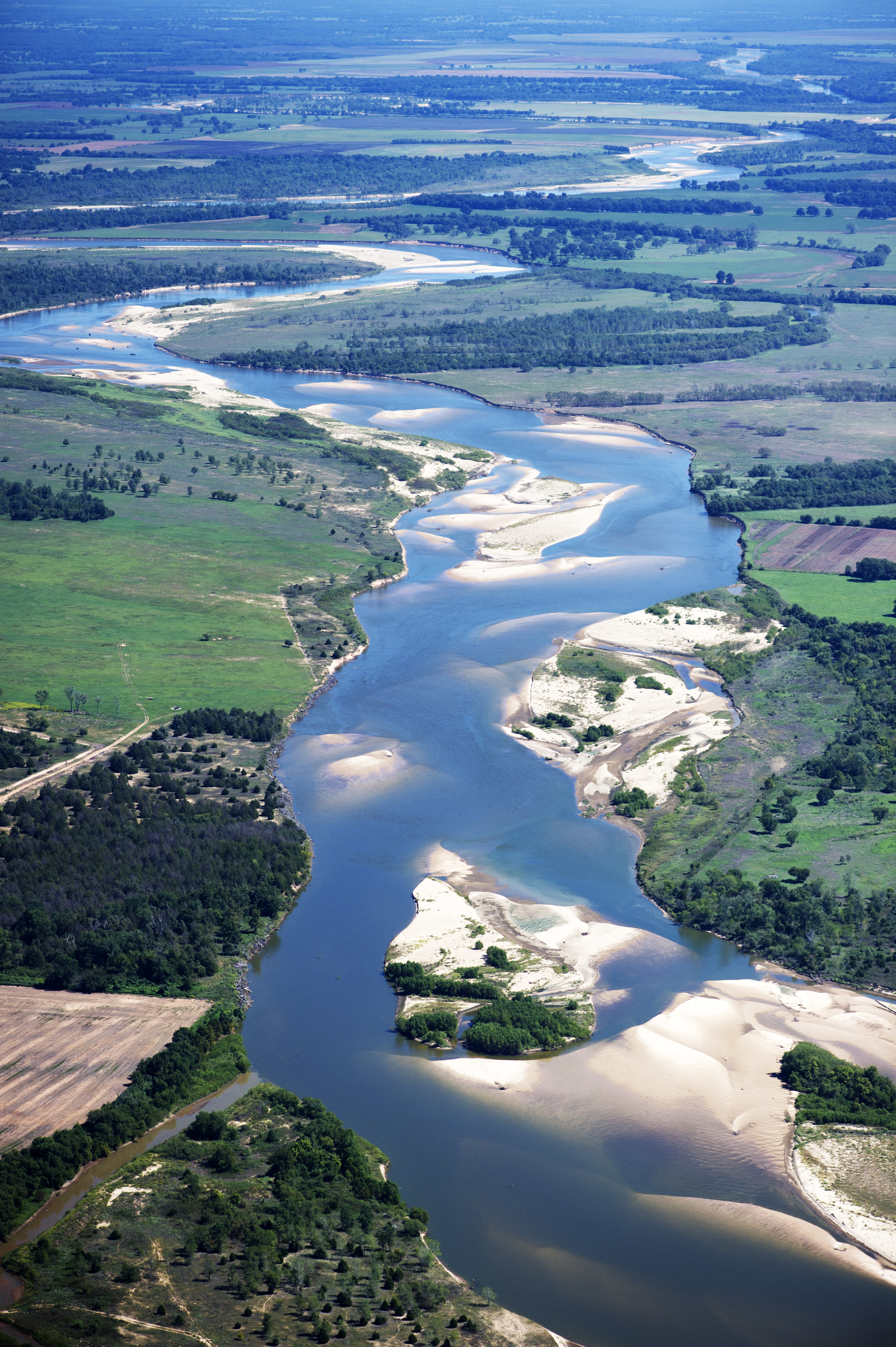 Aerial view of Red River — north of Bonham, Fannin County, northeast Texas - looking east.